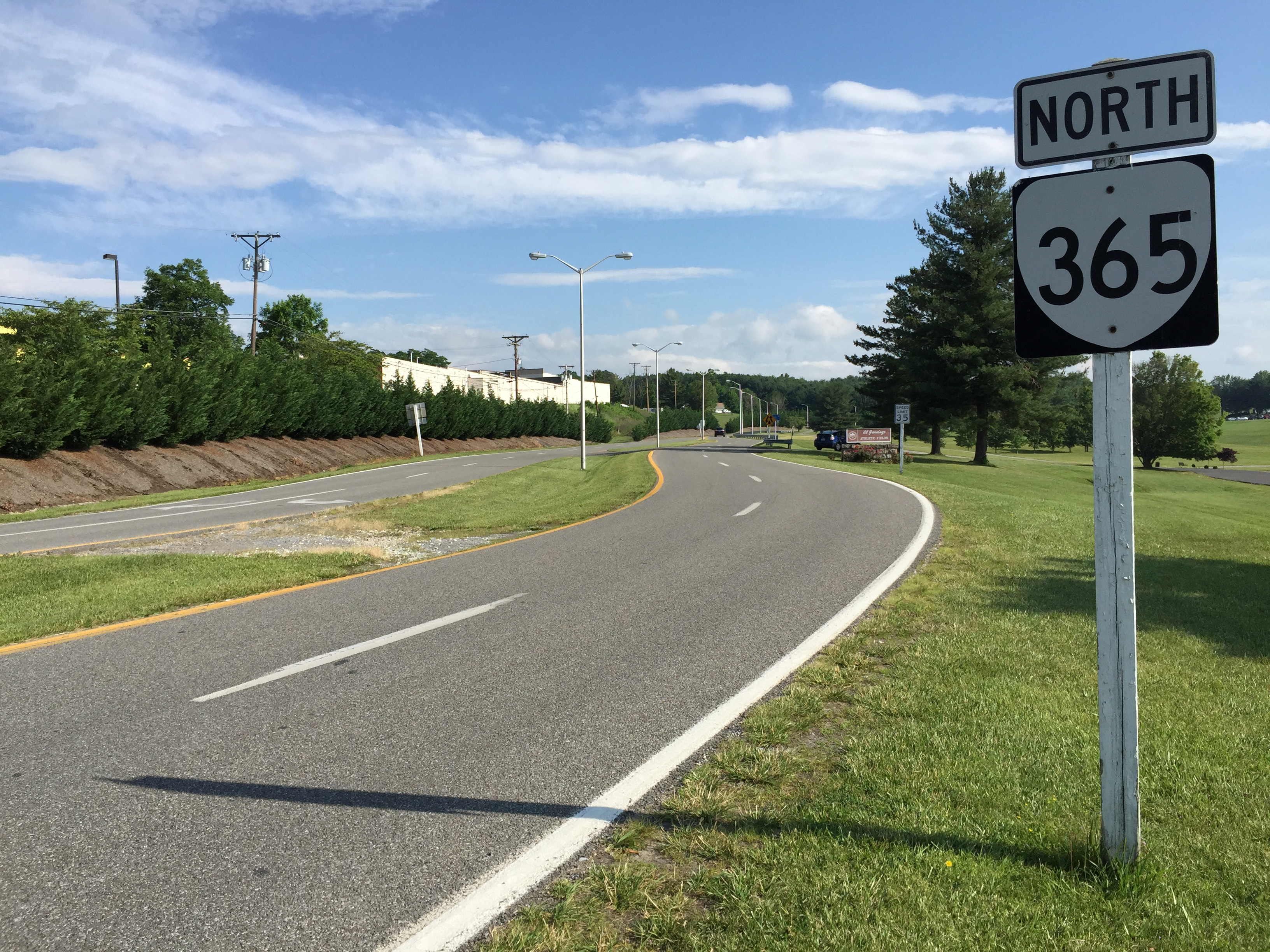 View north along Virginia State Route 365 at U.S. Route 11 (Lee Highway) at the Wytheville Community College in Wytheville, Wythe County, Virginia